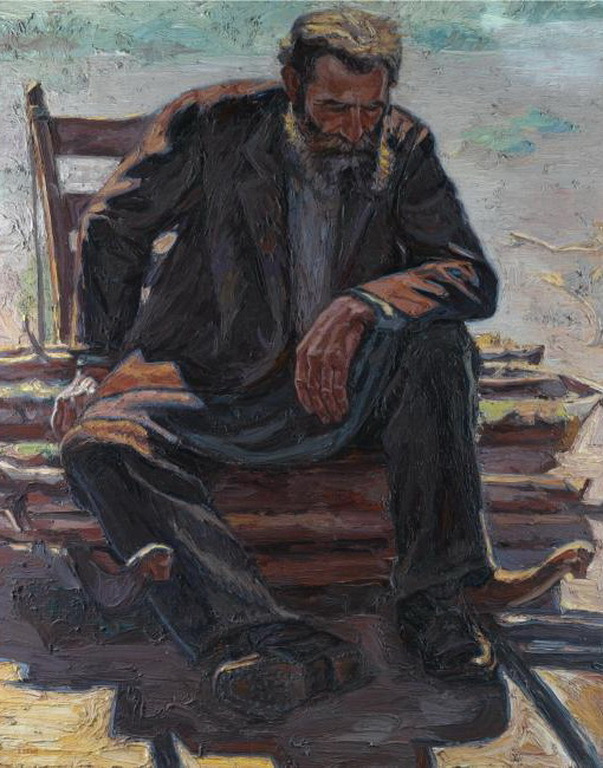 Greek painter Emmanouil Zairis: "A moment rest"